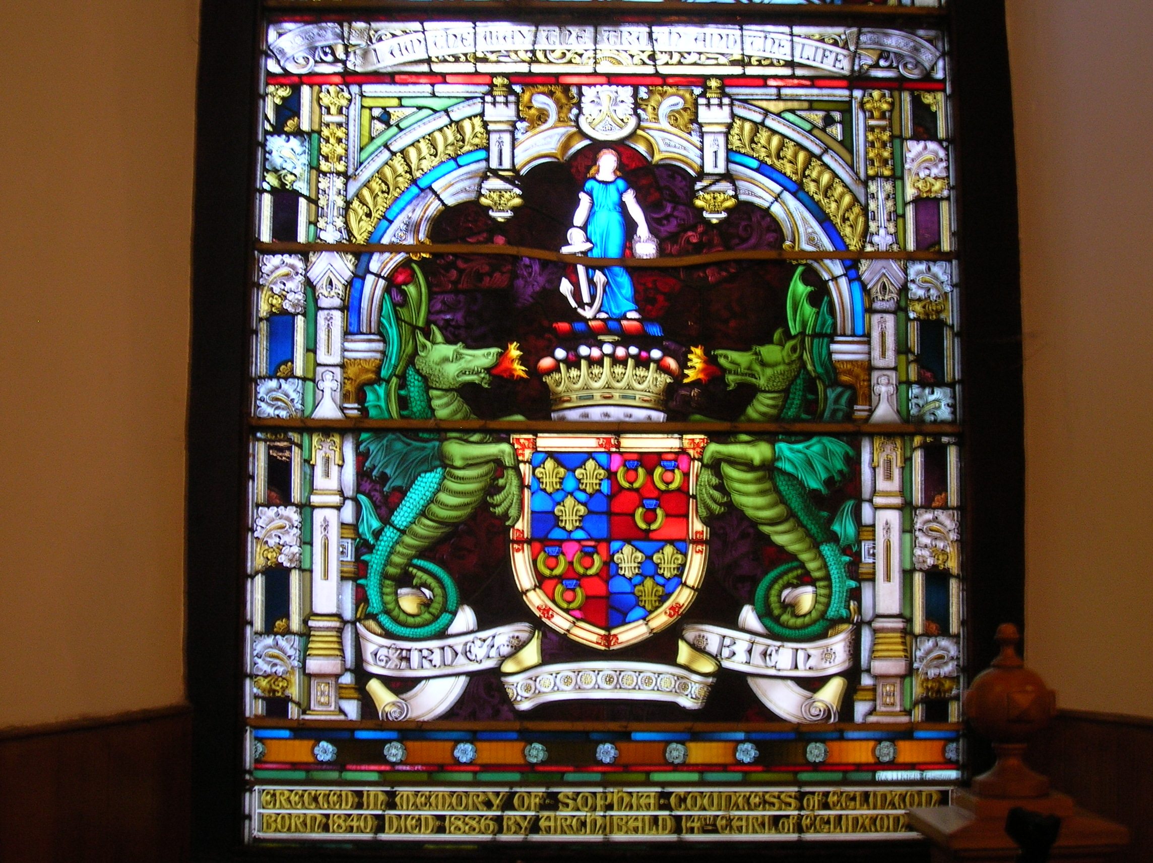 Stained glass window, Countess Sophia Montgomerie, Kilwinning Abbey, North Ayrshire, Scotland.